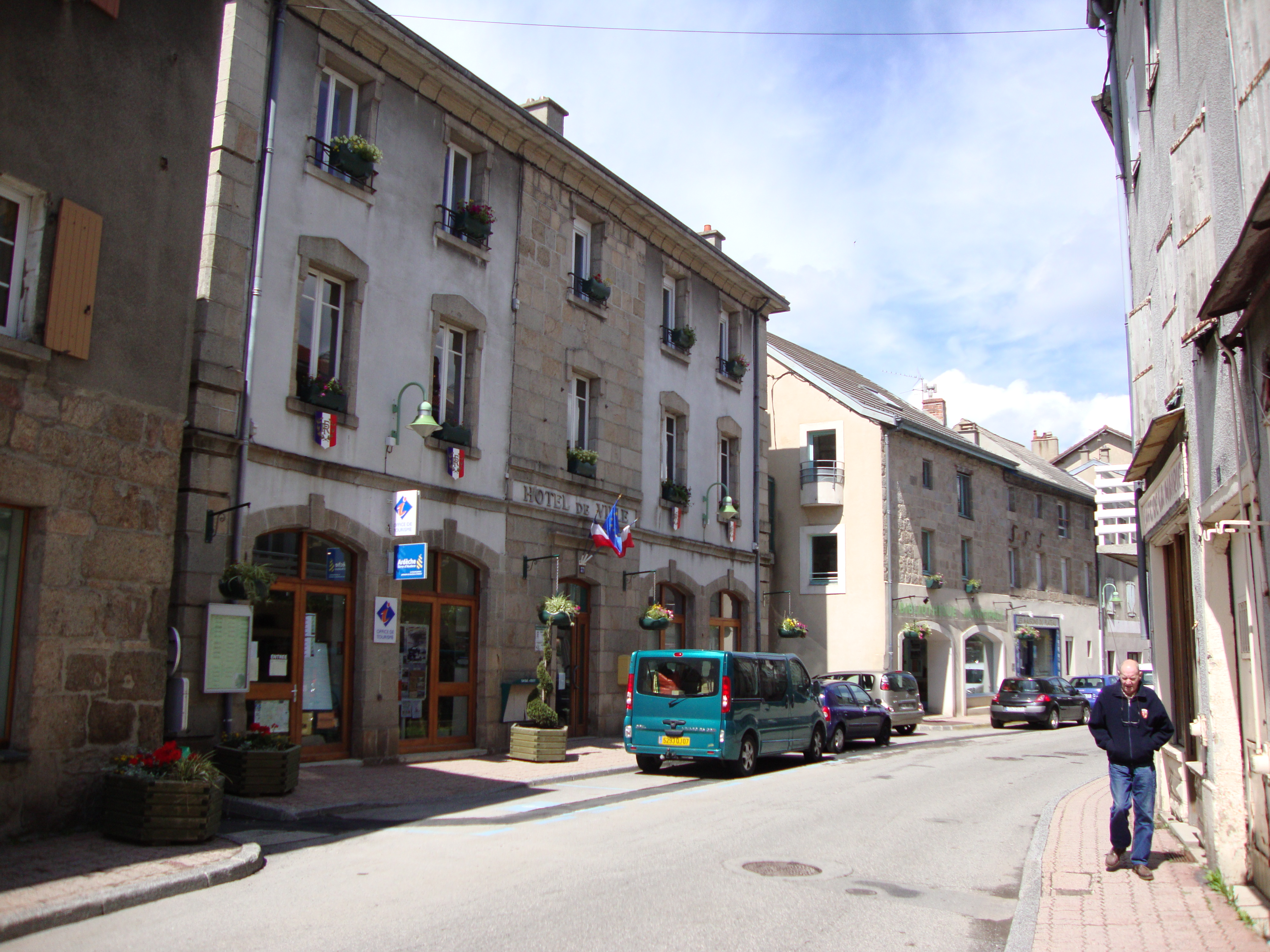 St.Agrève (Ardêche, Fr) Rue pricipale, mairie